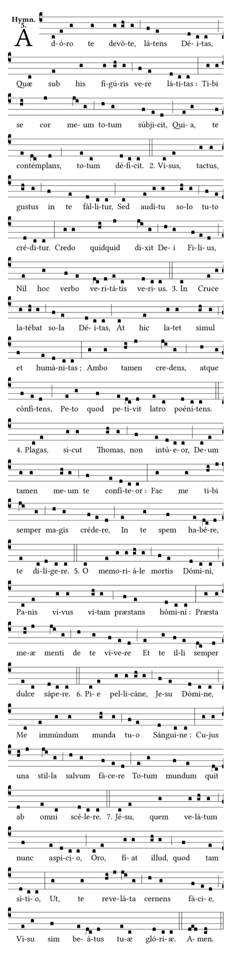 Adoro te devote by Thomas Aquinas